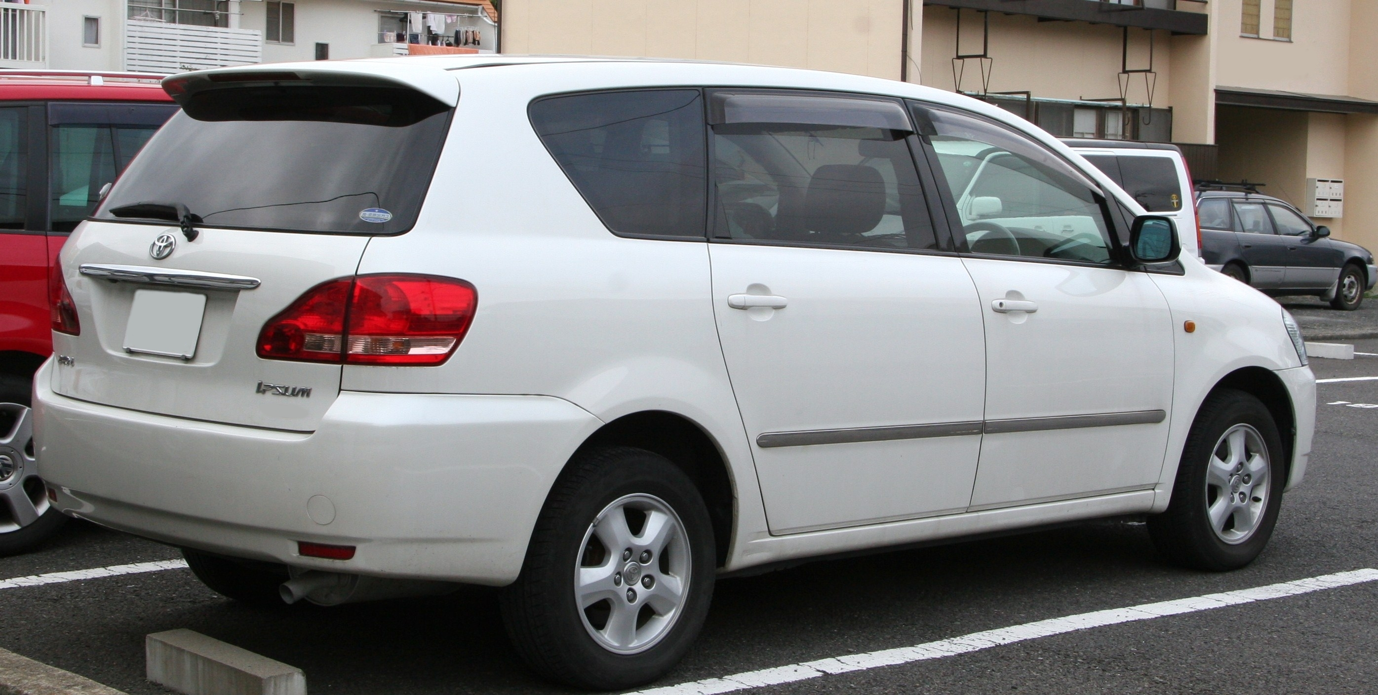 Toyota Ipsum